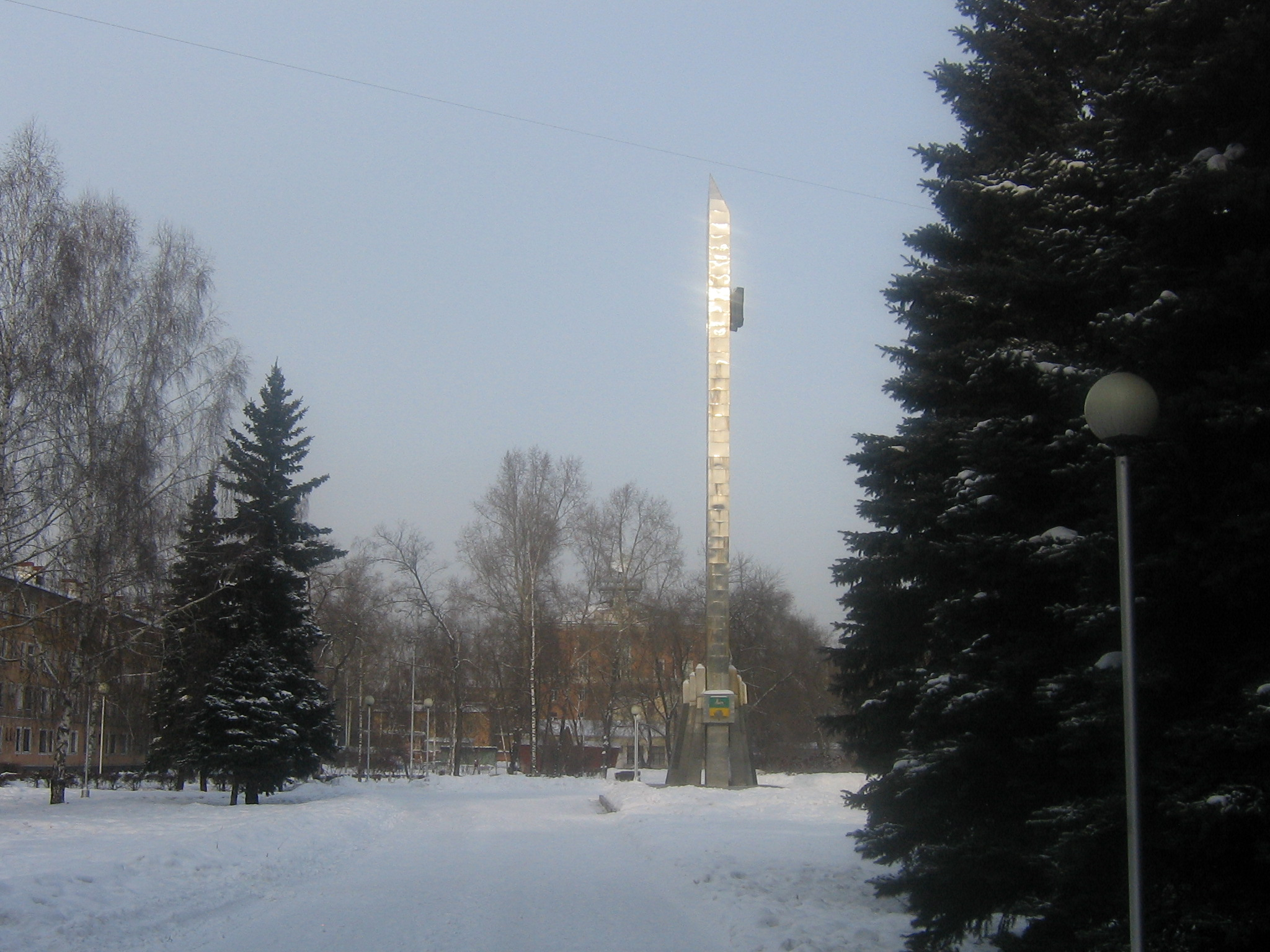 Commemorative Stela "50 Years of Novokuznetsk", Russia